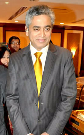 Rajdeep Sardesai and Aamir Khan at a function to felicitate IBN7 Super Idols